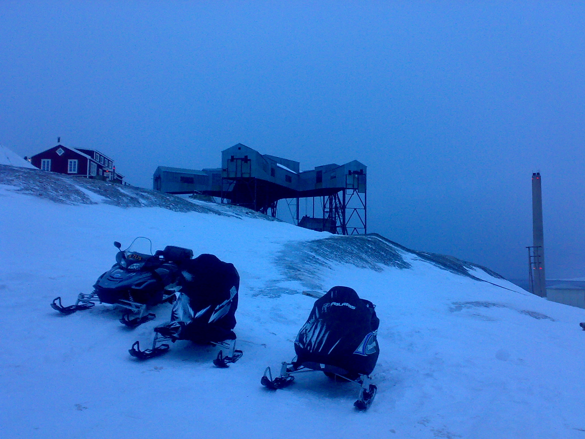 Longyearbyen, at 03.15 AM, April 15, 2008